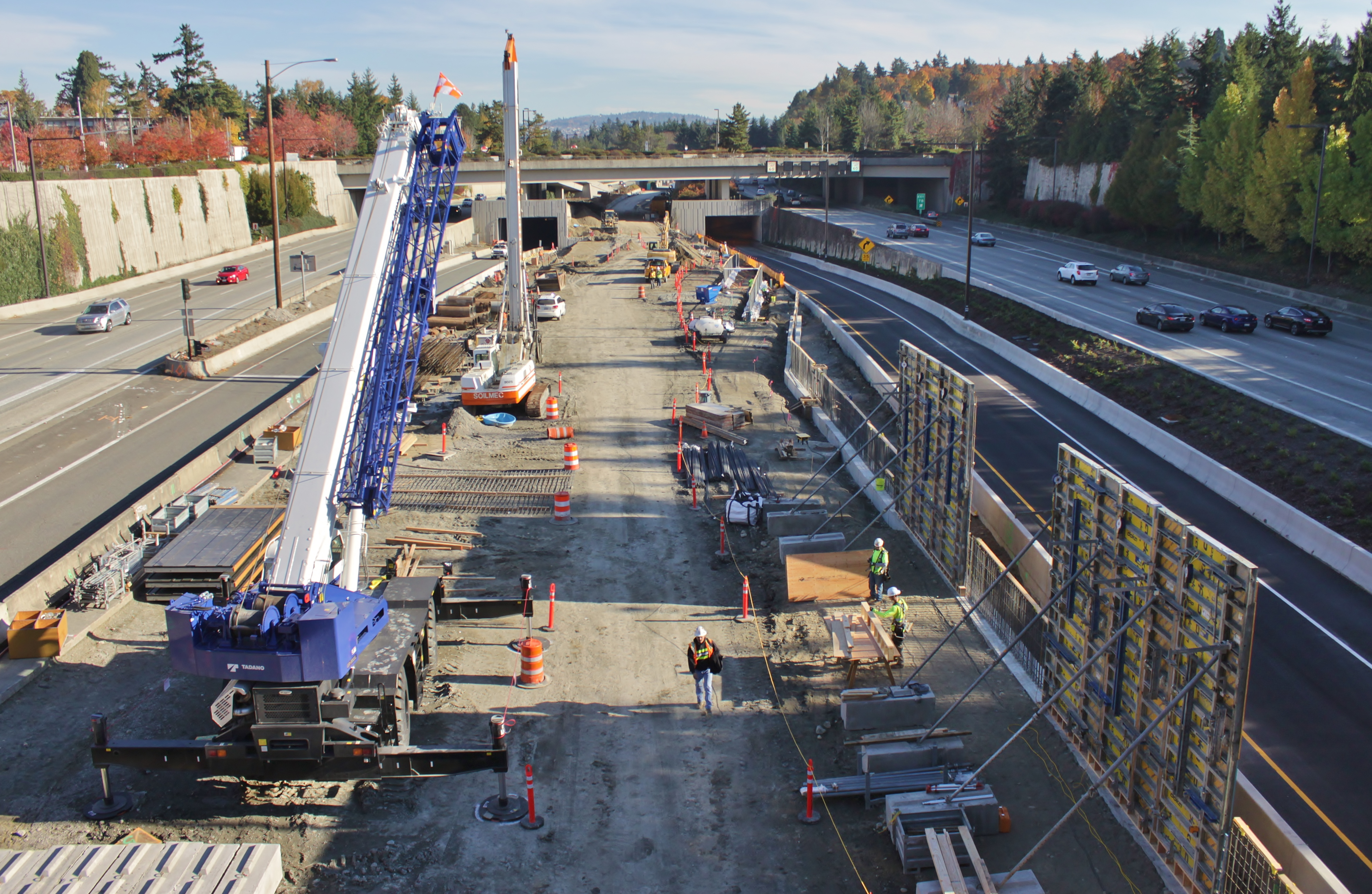 The future Mercer Island light rail station under construction in the former express lanes of Interstate 90.